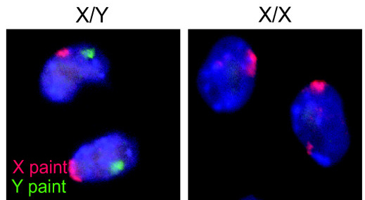 X-chromosomes (red) and Y-chromosomes (green) in embryonic stem cells of male (X/Y) and female (X/X) mice.